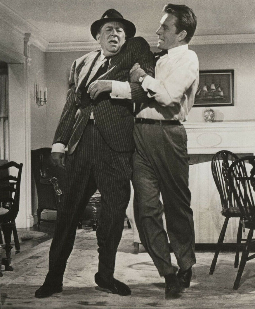 Publicity still of James Dunn and Richard Burton in "The Bramble Bush" (1960 film)